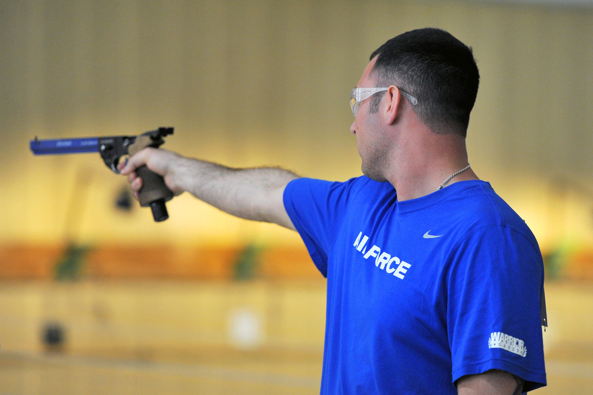 U.S. Air Force Staff Sgt. Christopher E. D'Angelo takes aim in the shooting competition of the 2011 Warrior Games at the U.S. Olympic Training Center in Colorado Springs, Colo., May 17, 2011. U.S. Air Force photo by Staff Sgt. Desiree N. Palacios